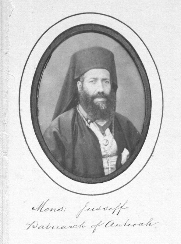 Gregory II Youssef, Patriarch of Antioch and of All the East, of Alexandria and of Jerusalem (1864 - 1897)